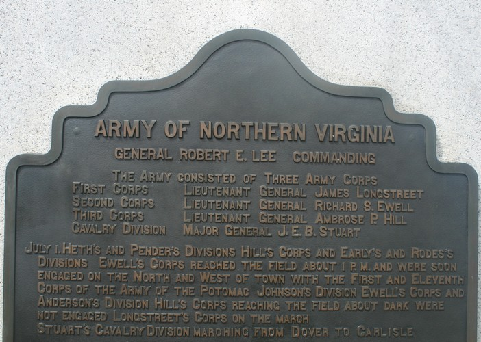 Army of Nothern Virginia monument at Gettysburg